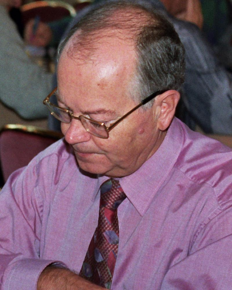 Gottfried Braun, Senior Chess World Championship 1995 at Bad Liebenzell, Photographer Gerhard Hund.